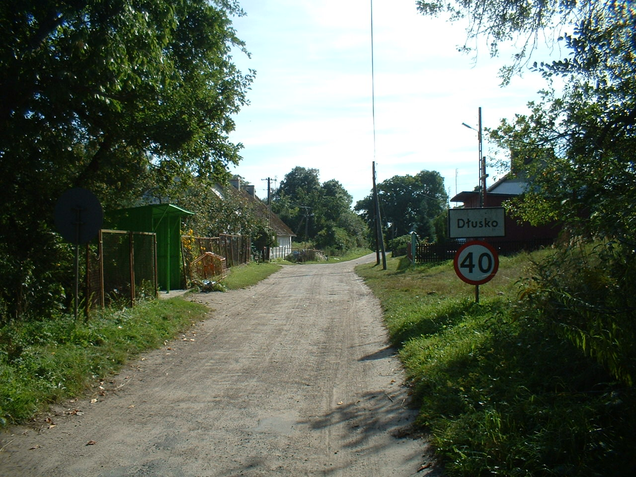 Dłusko Blankenhagen bei Wangerin: Entrance to the village with town sign